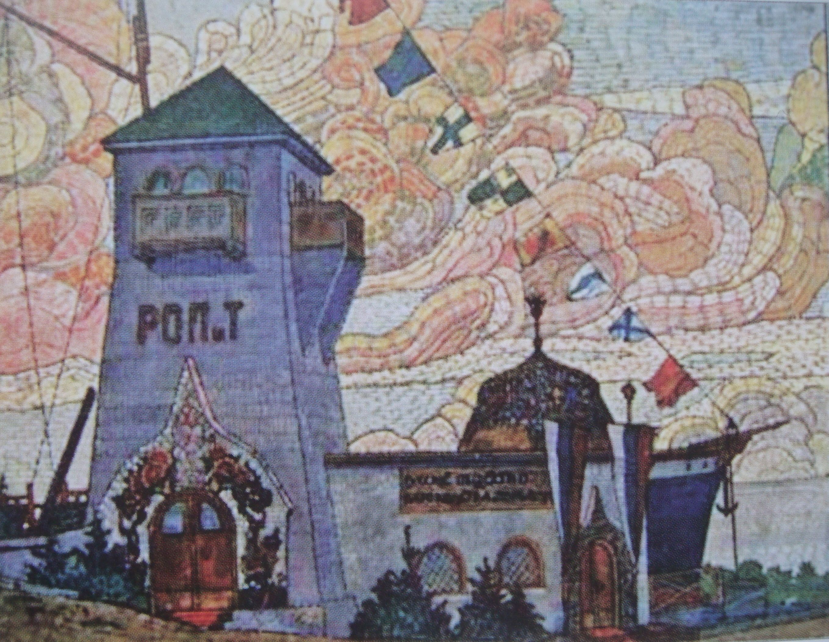 Old Carte Postale (Open Letter) issued in 1910 showed pavilion of Russian Society of Steamshipping and Trade at Odessa Exposition